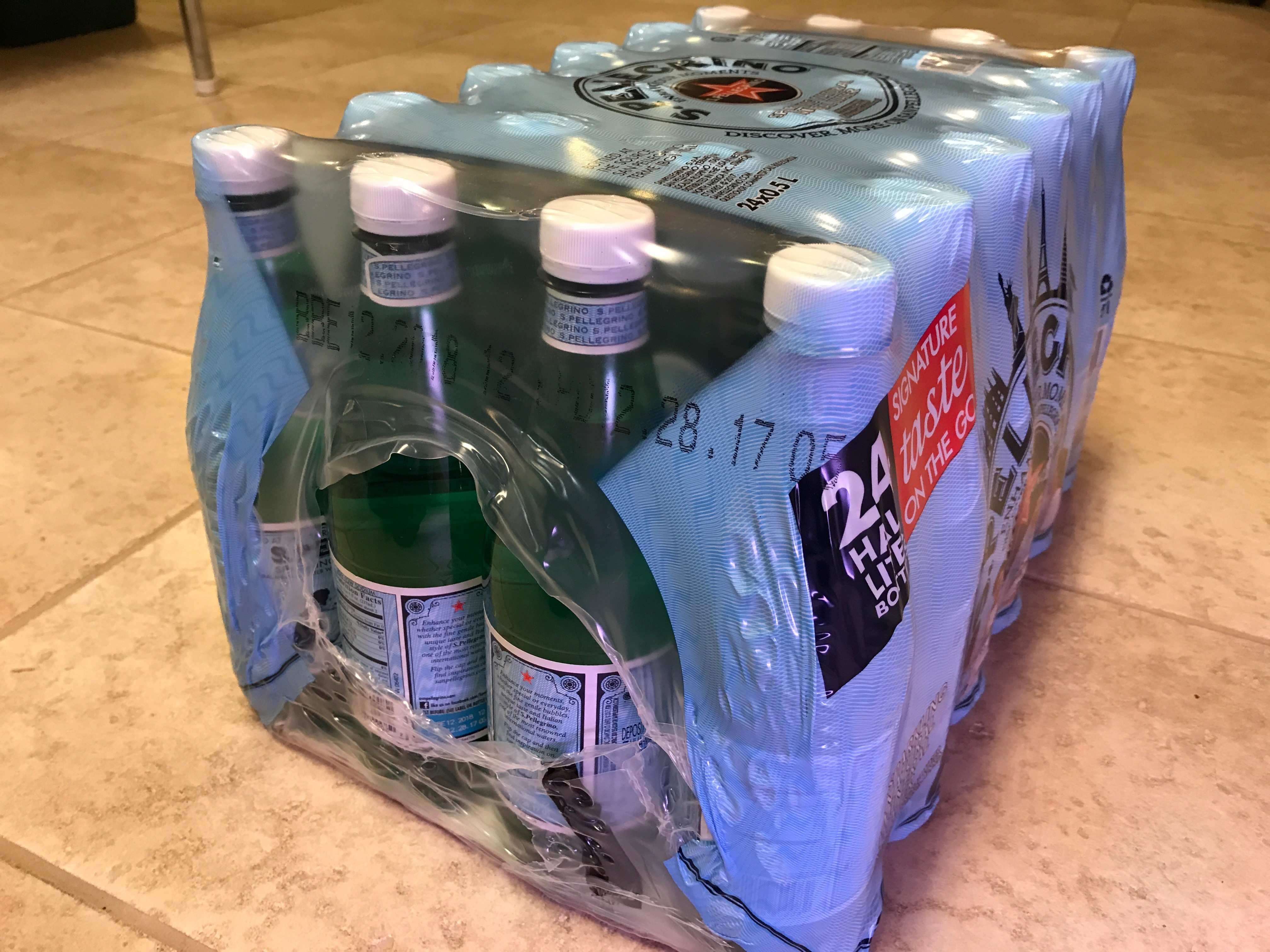 A 24 pack of plastic bottles of water shrink wrapped. The open ends form a hole or "bulls eye" which can be used as a handle.